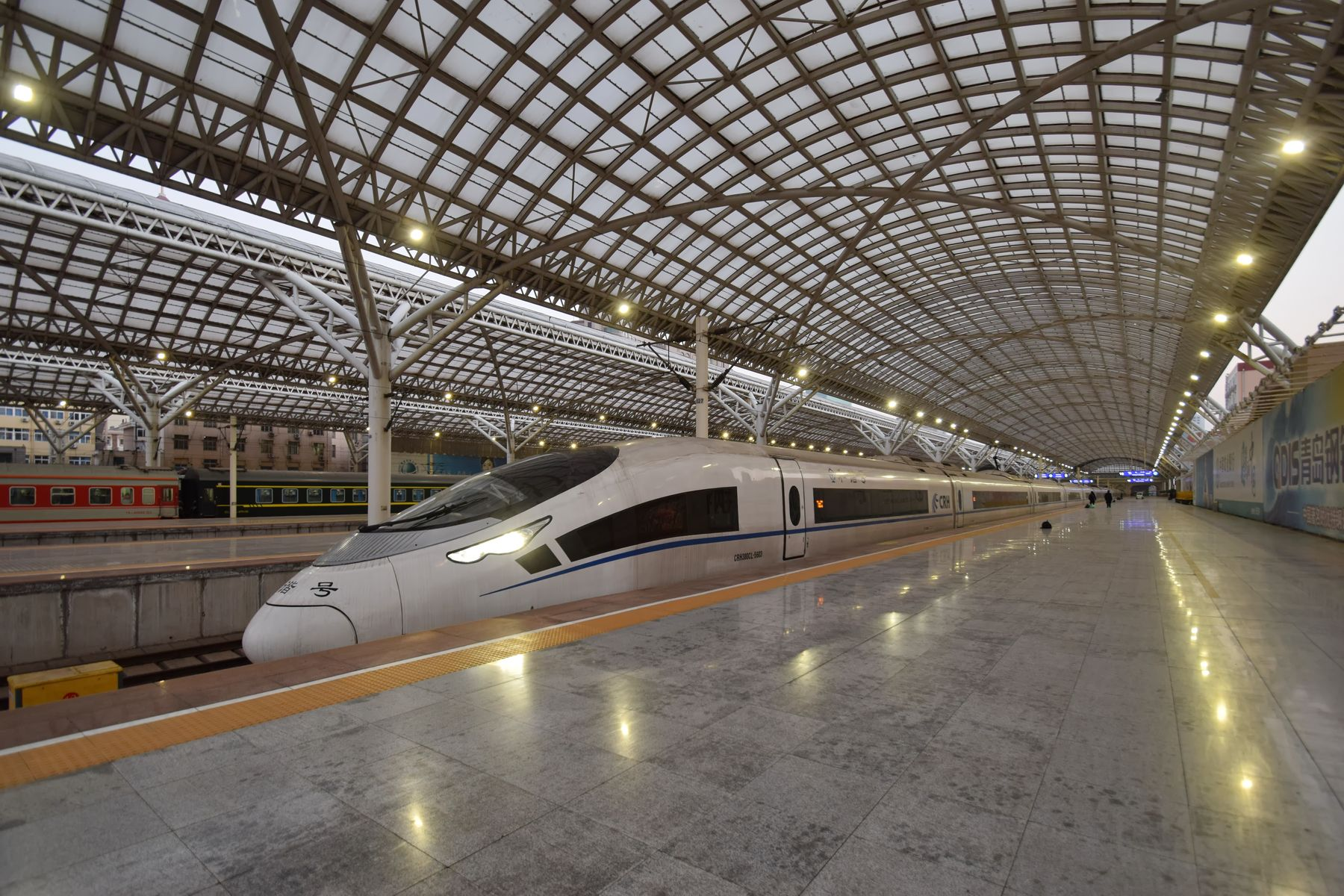 CRH380CL EMU at Platform 10 of Qingdao Railway Station